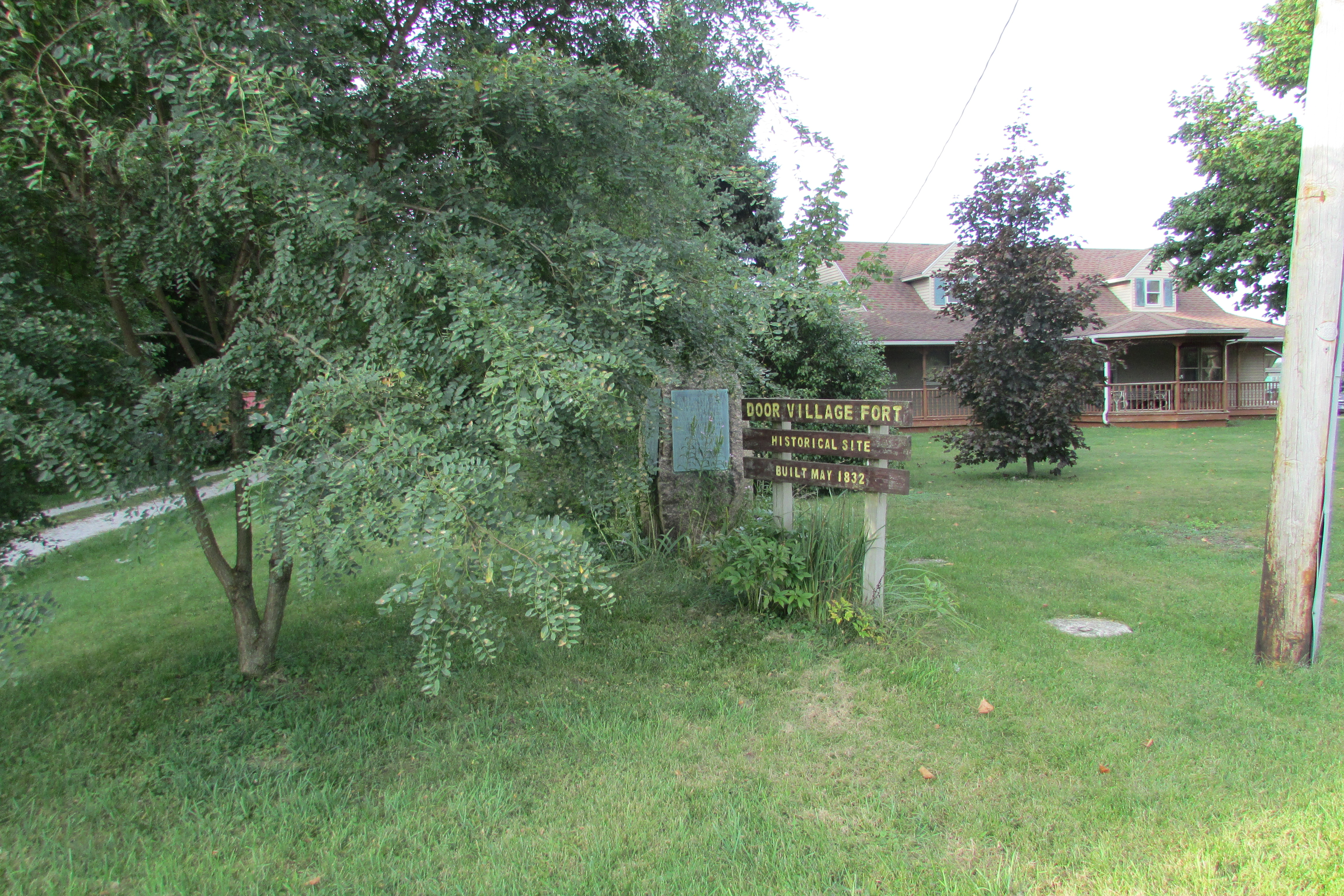 On this site a Fort-Stockade was built to defend the lives of the pioneers of LaPorte Prairie.